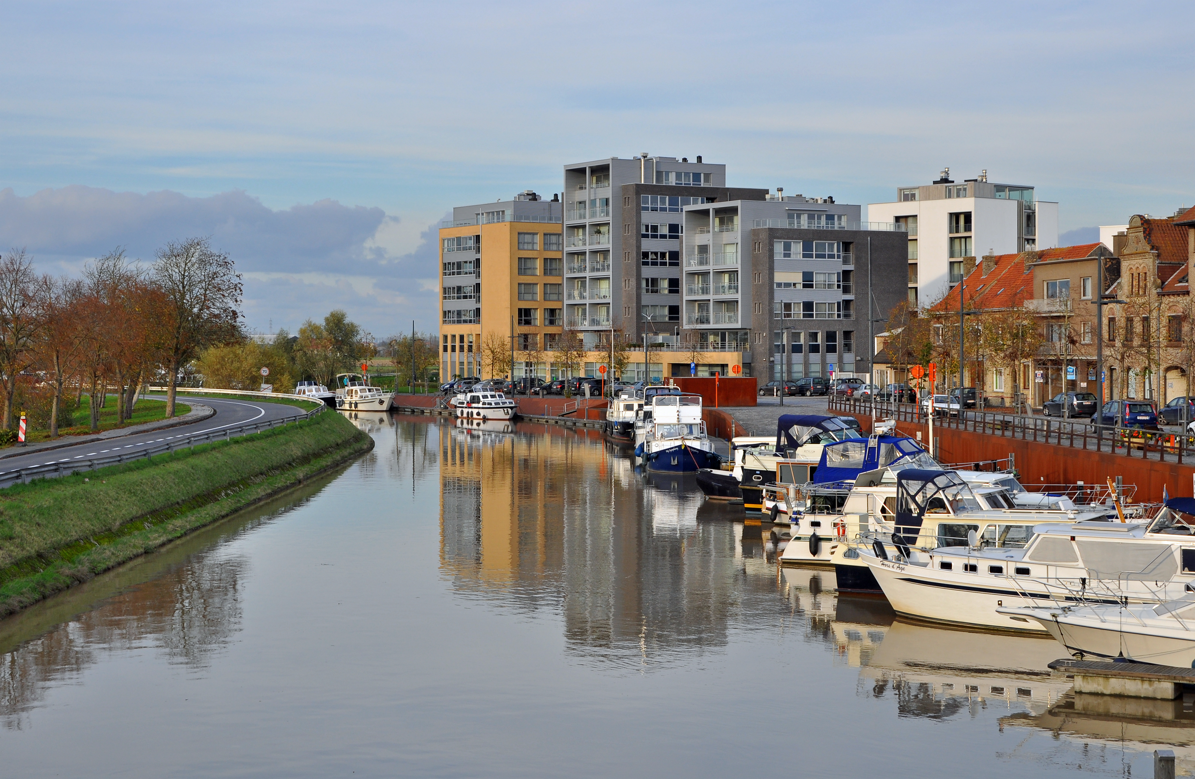 The Yser river in Diksmuide (Belgium)